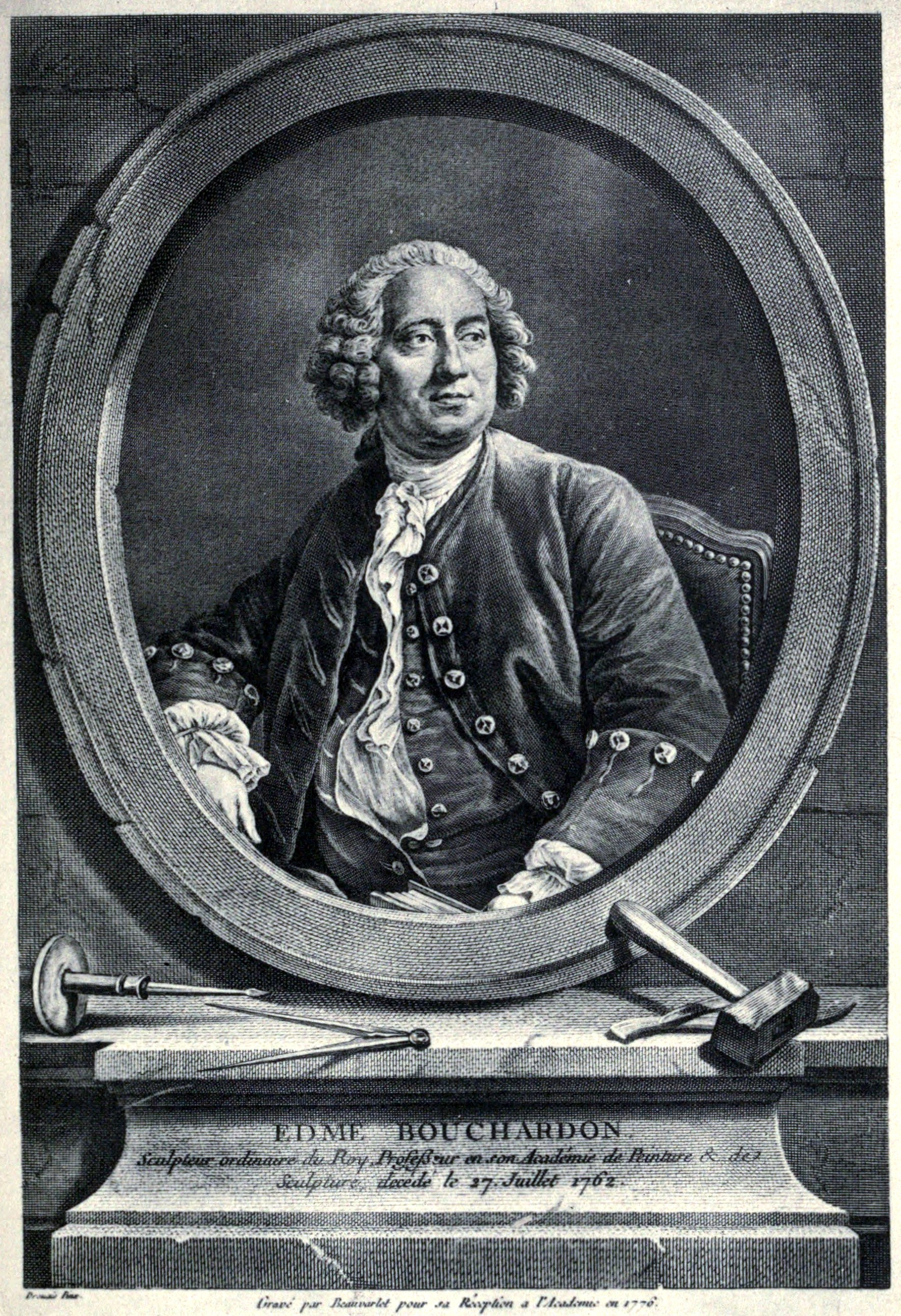 French portrait engraving of the XVIIth and XVIIIth centuries (1910) Author: Thomas, Thomas Head, 1881- Subject: Engraving -- France History; Engravers -- France; Portraits, French; Art, Modern -- 17th-18th centuries France; France -- Biography Portraits Publisher: London, Bell Possible copyright status: NOT_IN_COPYRIGHT Language: English Call number: nrlf_ucb:GLAD-167946426 Digitizing sponsor: MSN Book contributor: University of California Libraries Collection: americana; cdl Selected metadata Copyright-evidence-operator: judyjordan Copyright-region: US Copyright-evidence: Evidence reported by judyjordan for item frenchportraiten00thomrich on November 30, 2007: no visible notice of copyright; stated date is 1910. Copyright-evidence-date: 20071130014042 Scanningcenter: rich Mediatype: texts Collection-library: nrlf_ucb Identifier-bib: GLAD-167946426 Identifier: frenchportraiten00thomrich Imagecount: 402 Ppi: 400 Lcamid: 320094 Rcamid: 333345 Camera: 1Ds Operator: scanner-david-stites@... Scanner: rich4 Scandate: 20071130071150 Identifier-access: Identifier-ark: ark:/13960/t06w9992r Bookplateleaf: 0005 Sponsordate: 20071130